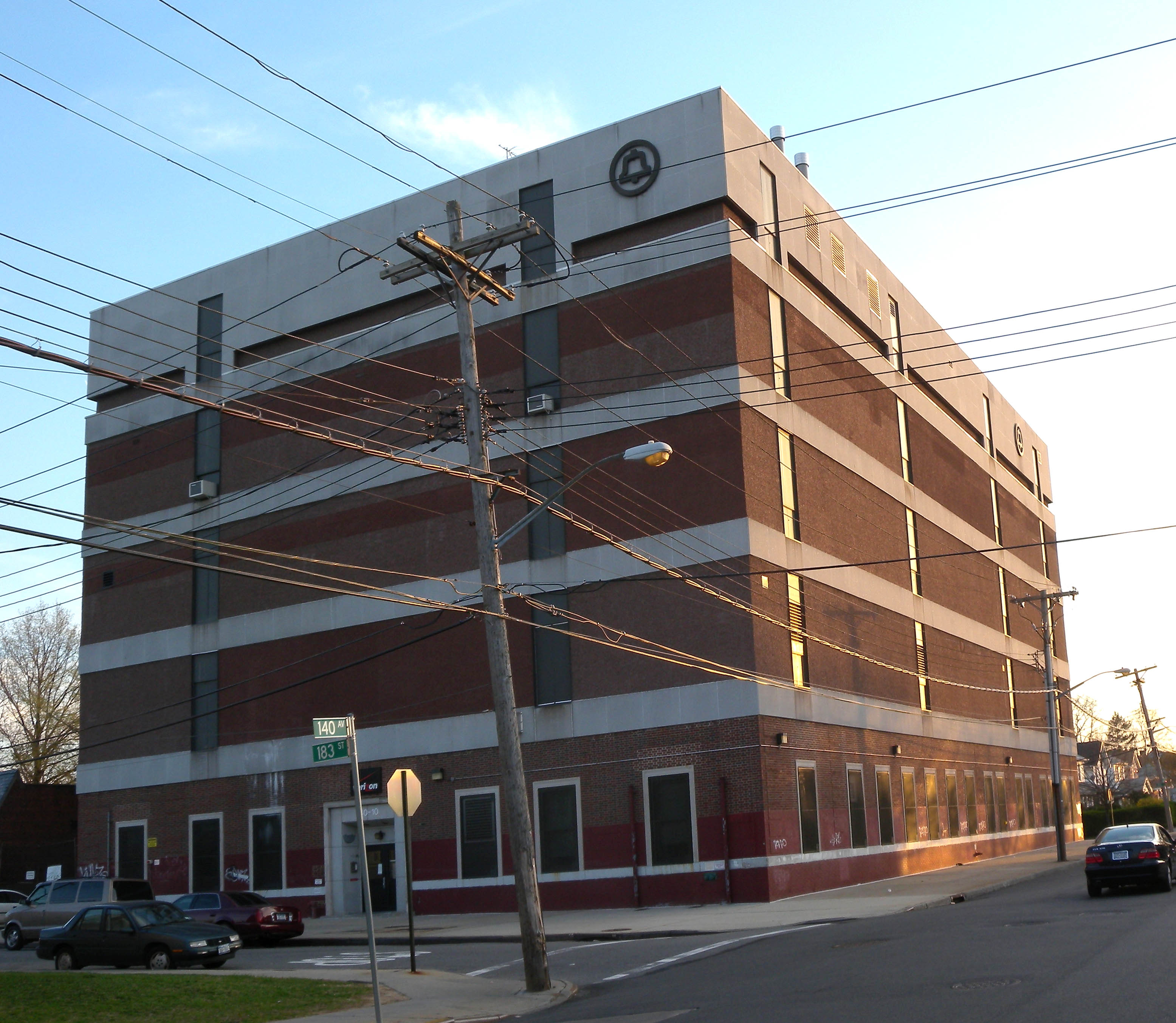 Looking southwest across 140th Avenue and 183d Street at Springfield Gardens, Queens telephone exchange at dusk of a sunny day.